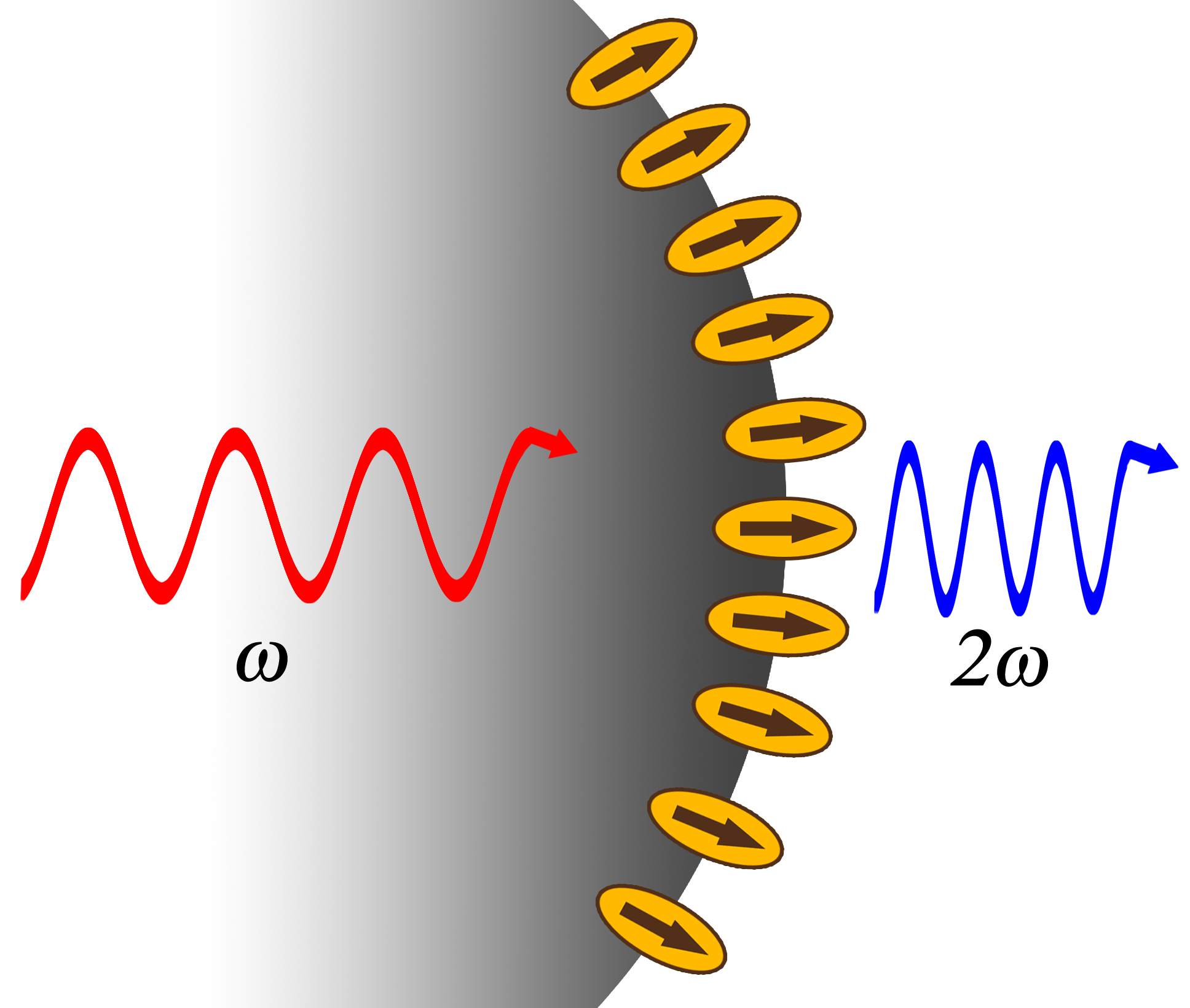 A cartoon depicting second harmonic generation from ordered molecules at a small sphere surface.